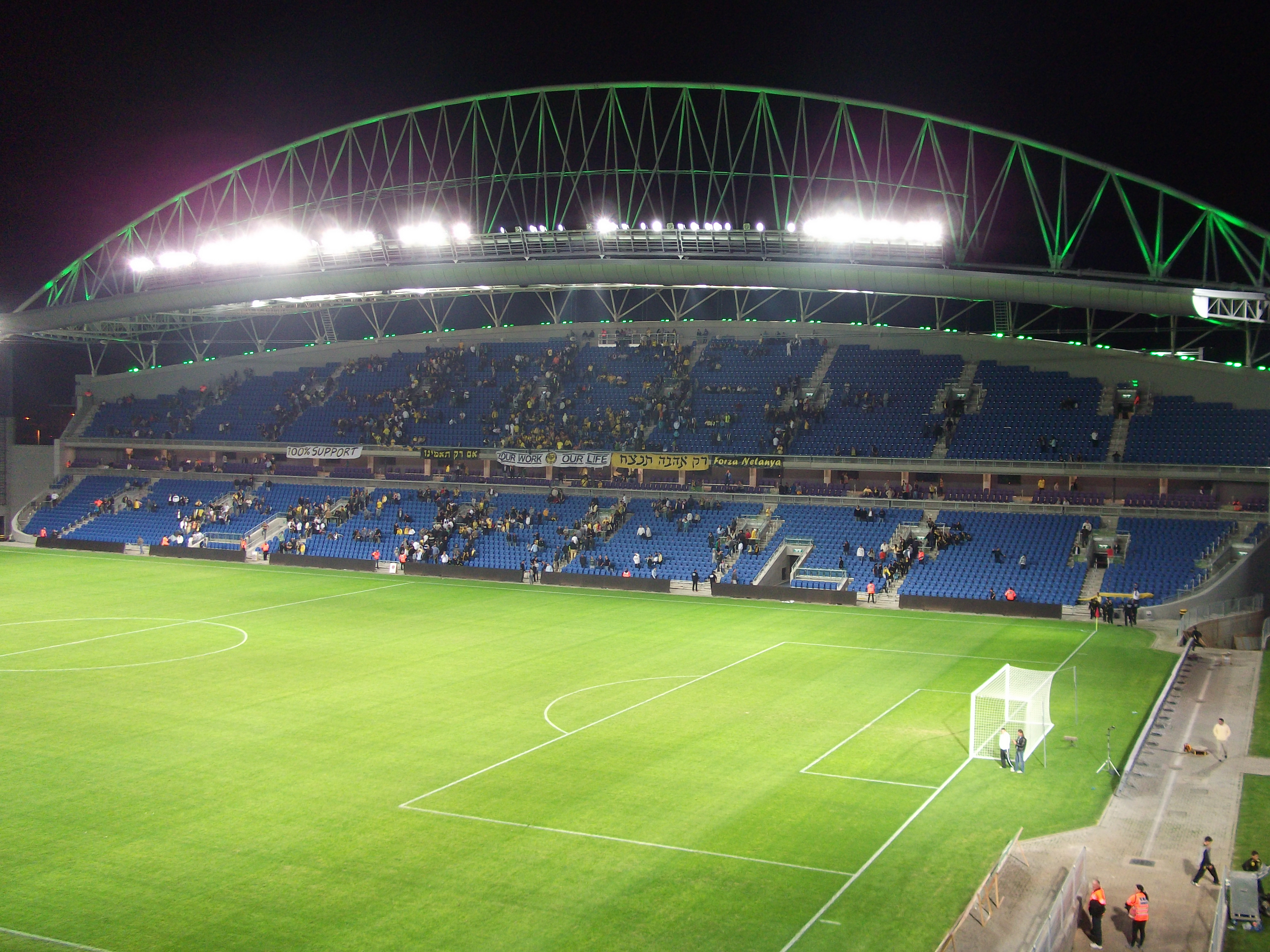 Netanya Stadium, Israel